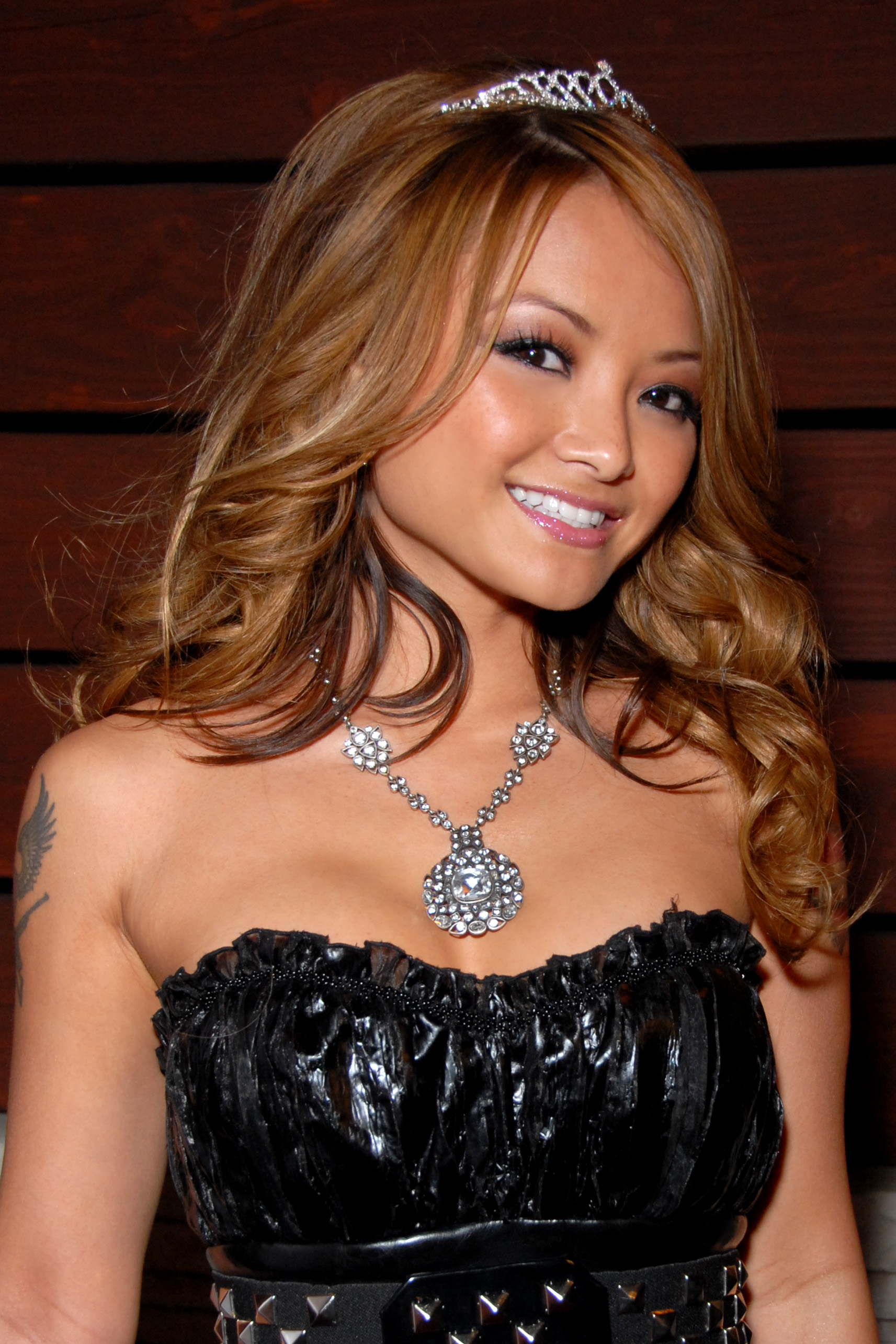 Tila Tequila attending the Mosci fashion show at Club AREA, West Hollywood, CA on 10/24/2008